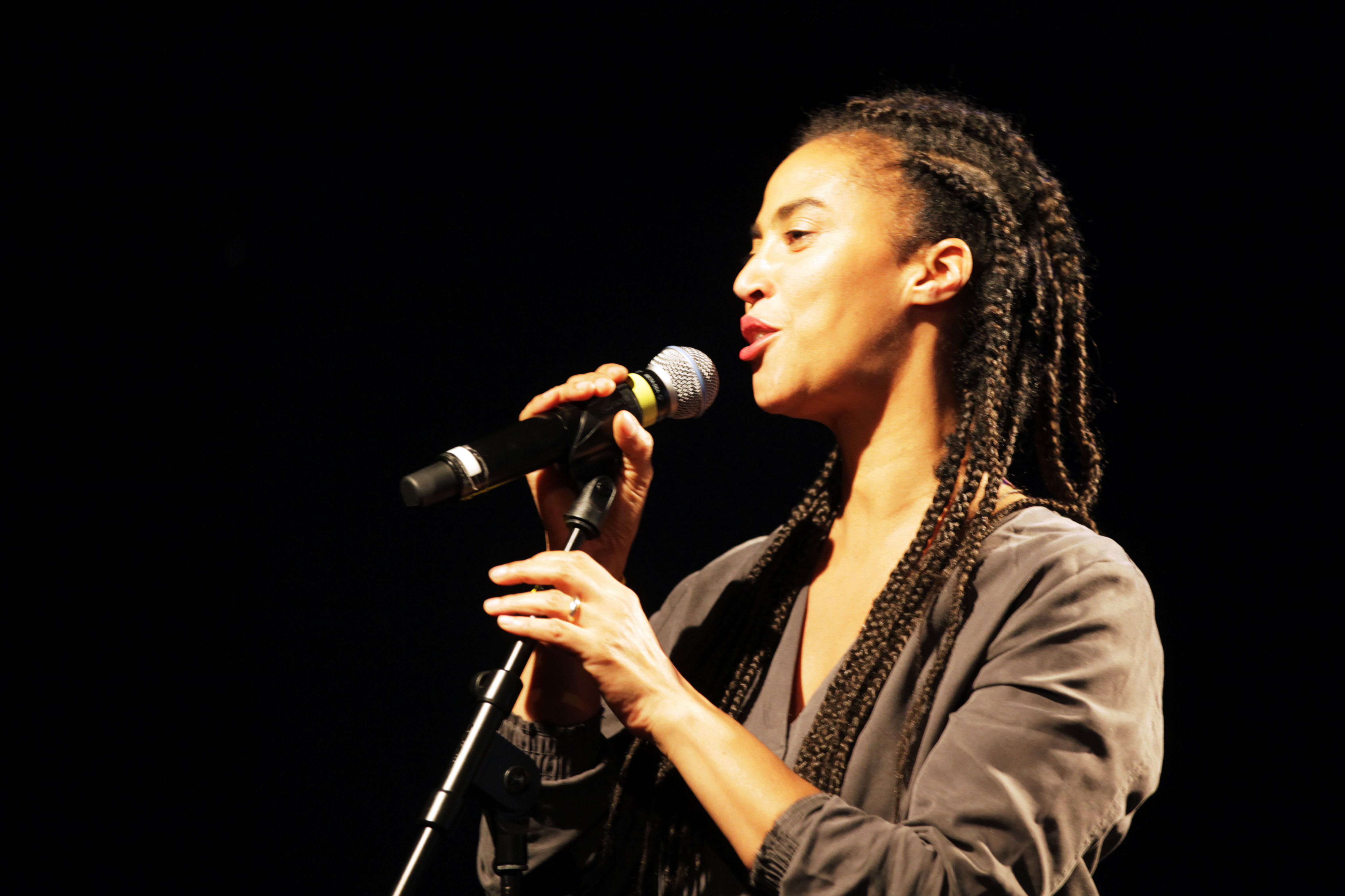 Grada Kilomba in "Kosmos", at Gorki Theater (2016)Photo by Ute Langkafel